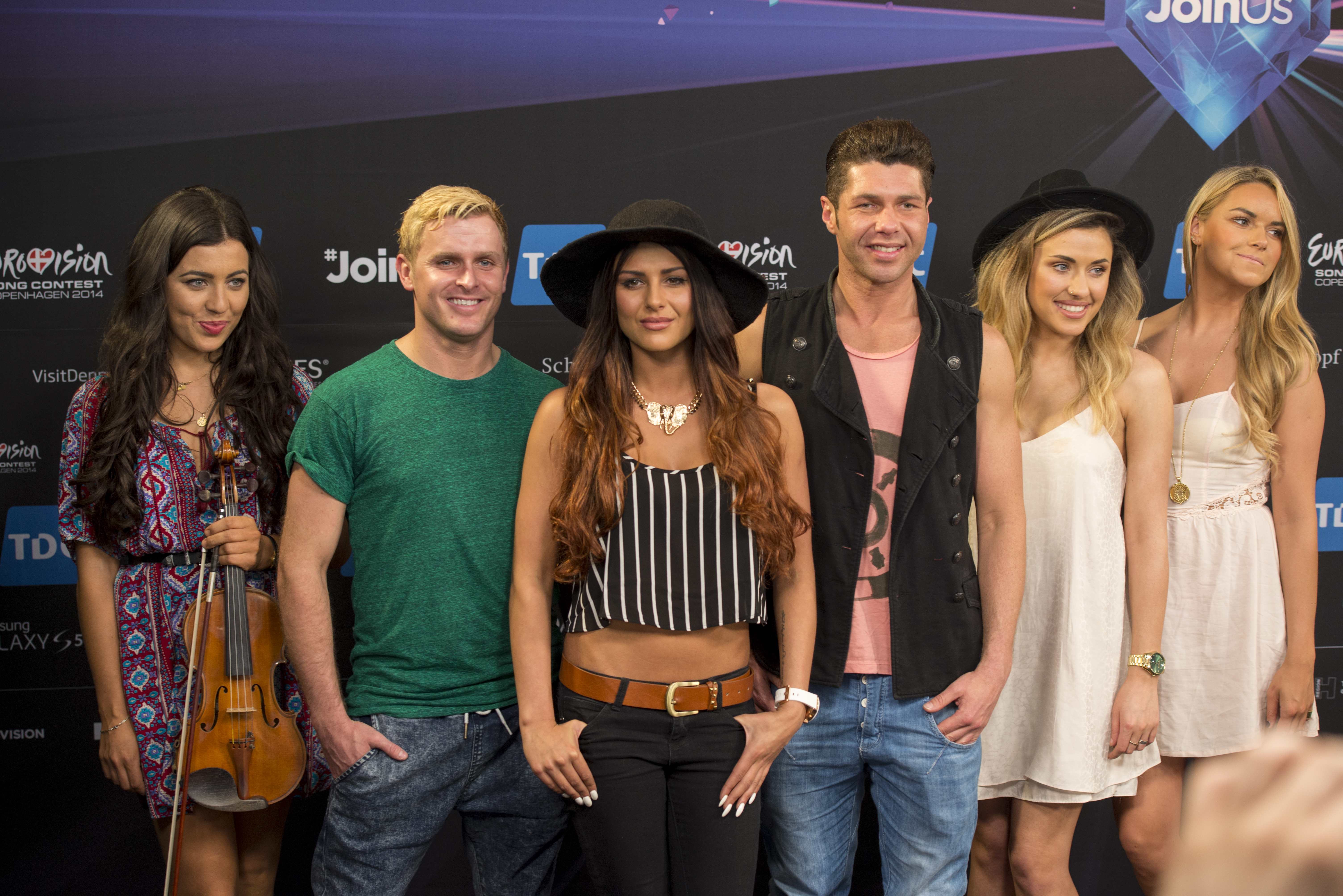 Can-linn and Kasey Smith at a Meet & Greet during the Eurovision Song Contest 2014 Copenhagen. (Help translate this text)